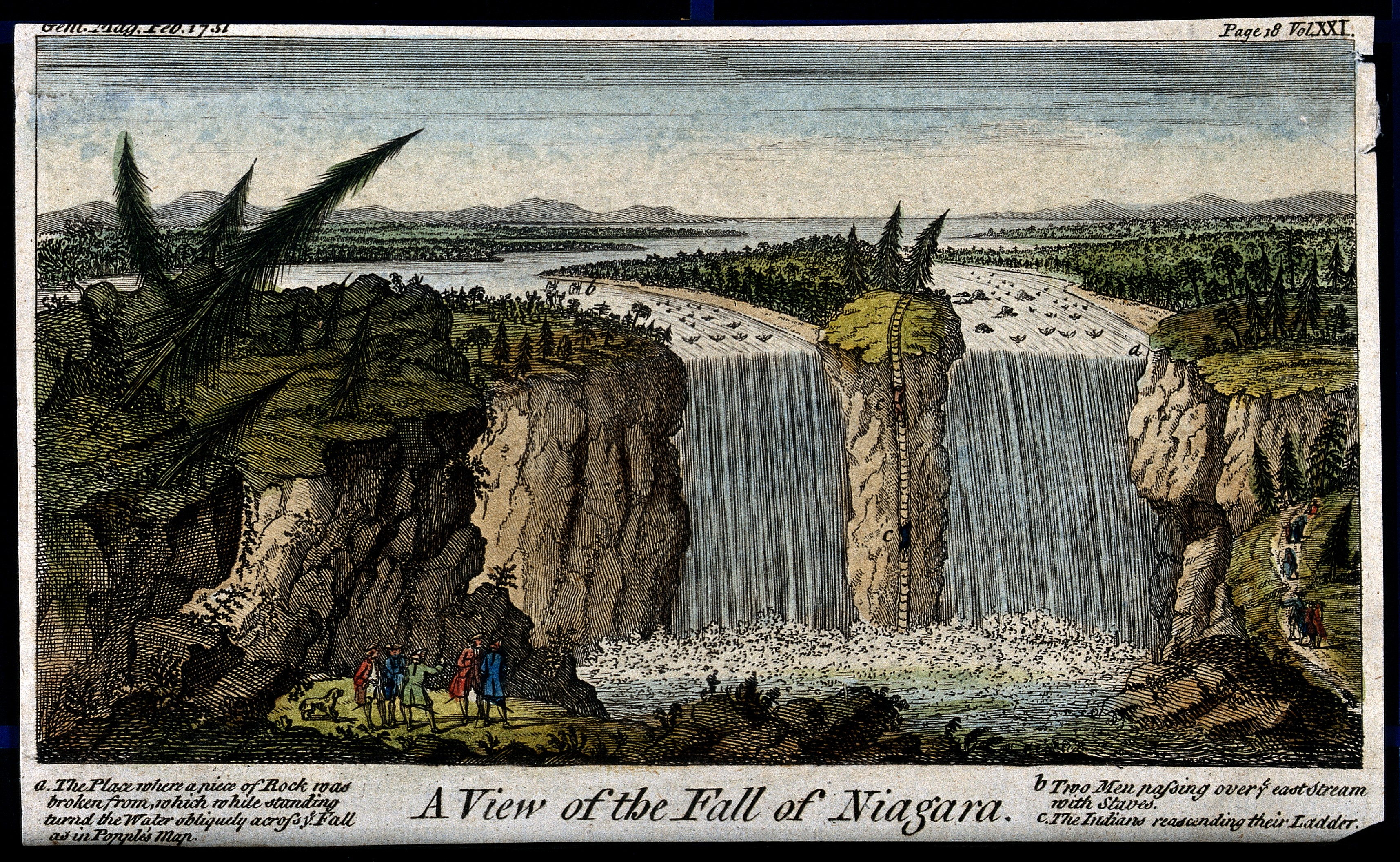 Geography: Niagara Falls, seen from a distance. Coloured engraving, 1751. Iconographic Collections